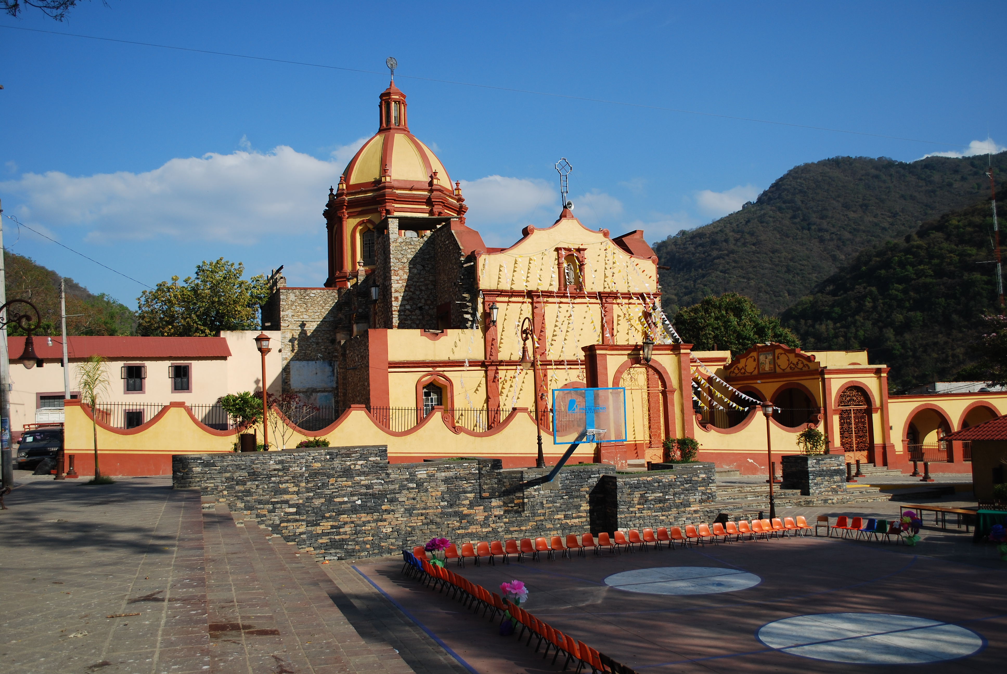 The Santa María de Guadalupe Church in Ahuacatlán, Pinal de Amoles, Querétaro